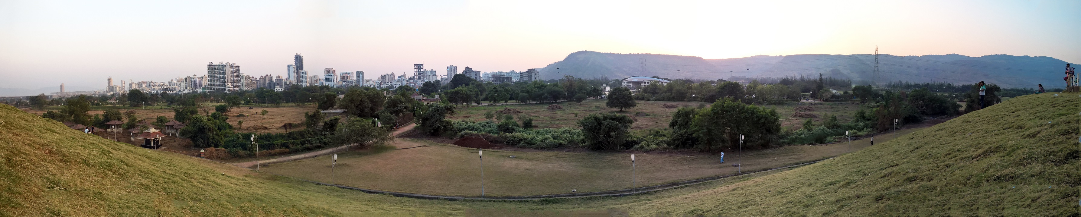 Panoramic view from the top of the Central Park hills, Kharghar, Navi Mumbai, India